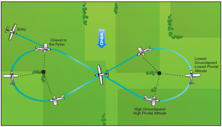 Top view of the Eights on Pylons aerial maneuver